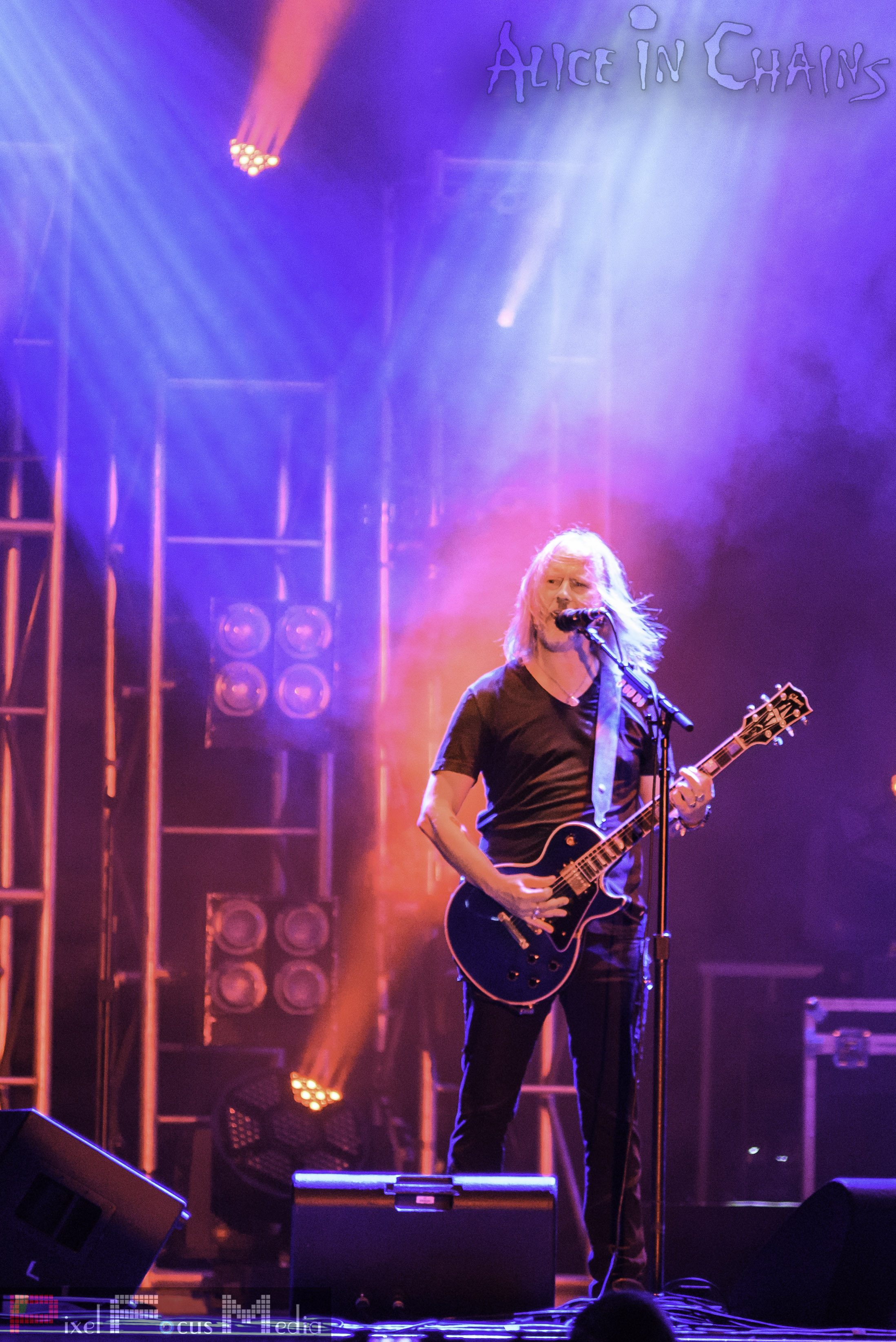 Jerry Cantrell live at 2016